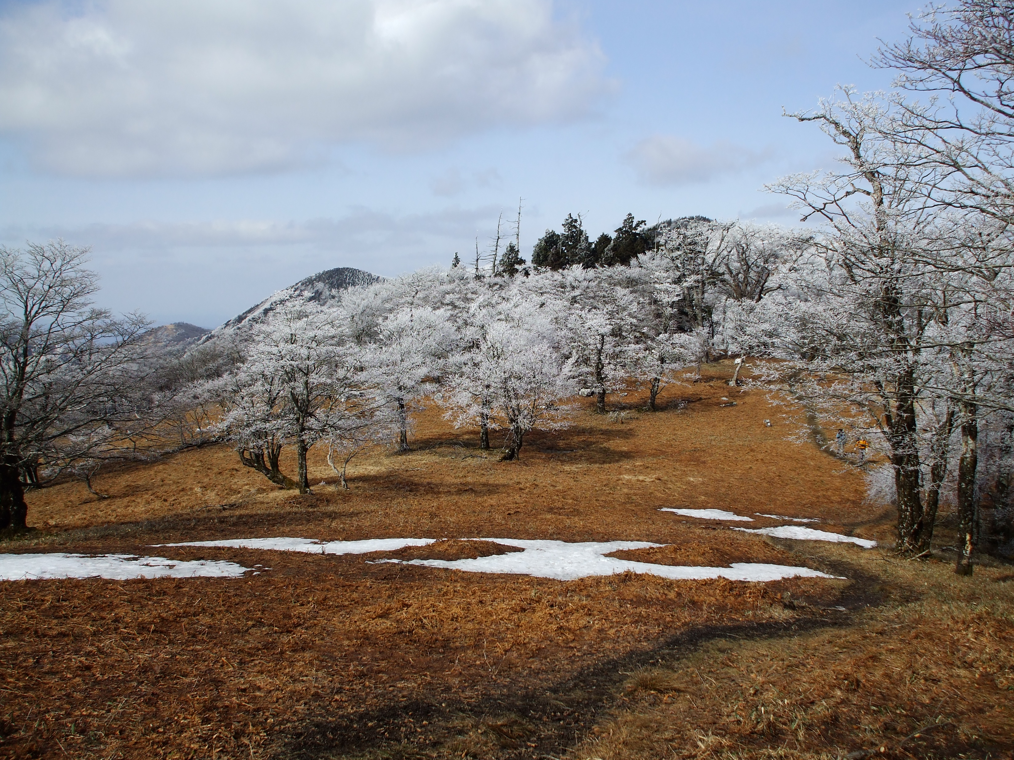 Myojindaira, Daiko Mountains, Honshu, Japan.